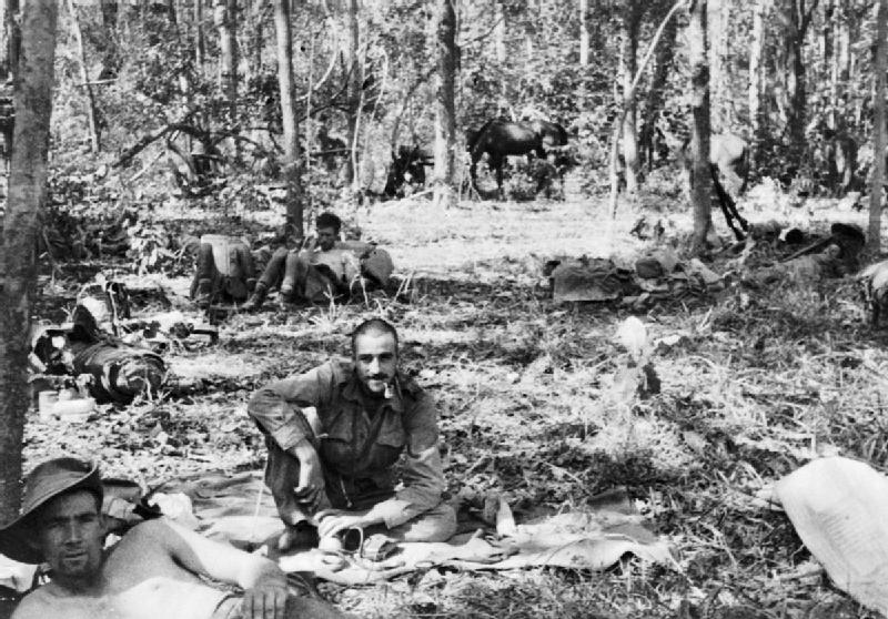 The Chindits Chindit Operations - General: Chindits at rest in their jungle bivouac.